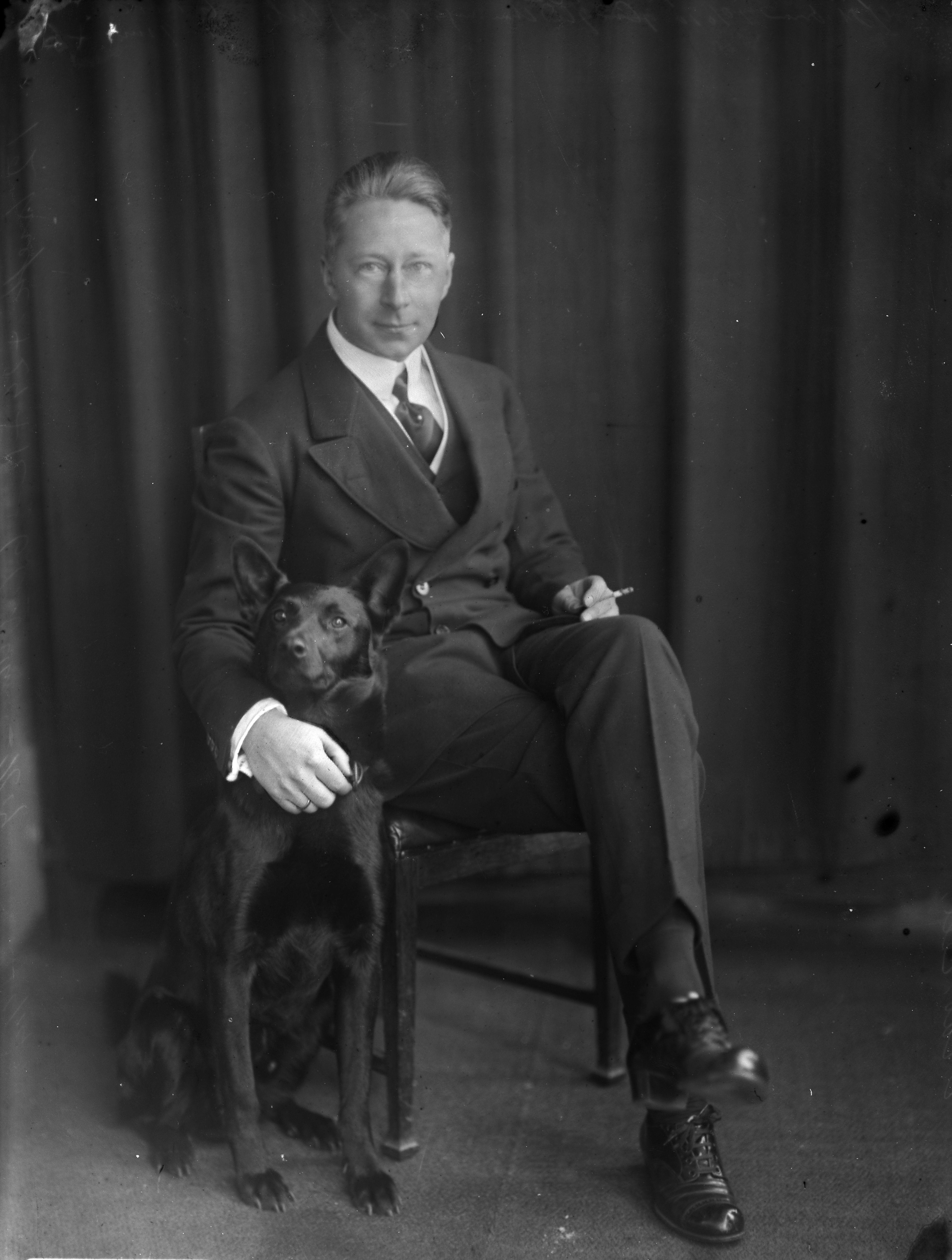 Photograph of German Kronprinz Wilhelm by Jacob Merkelbach (1877-1942)